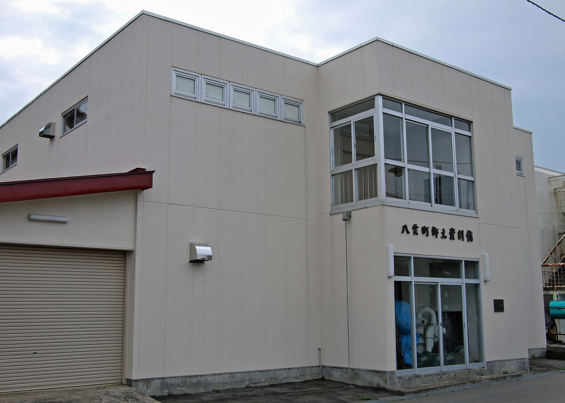 Yakumo town museum, Yakumo, Hokkaido, Japan